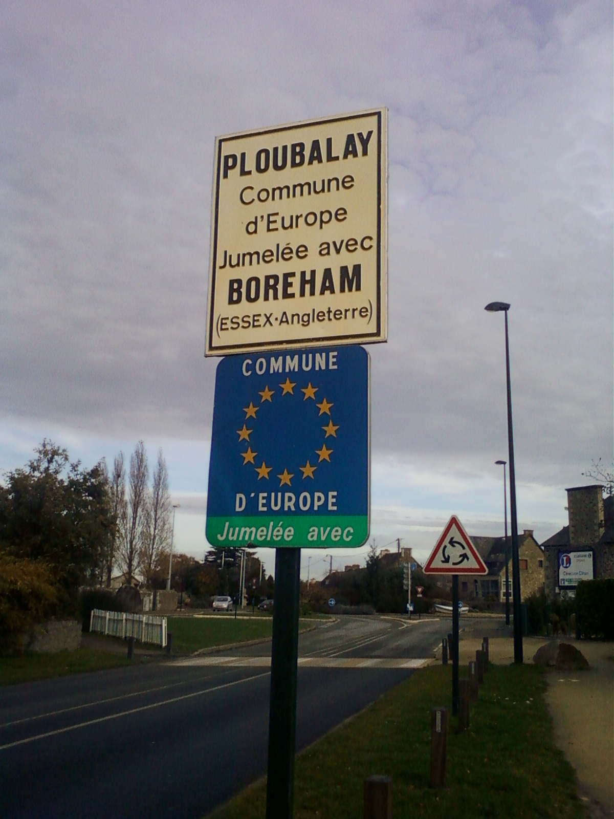 Boreham